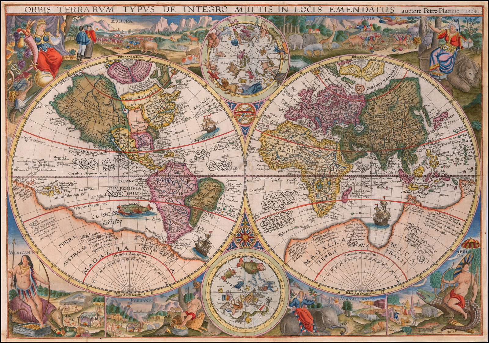 Orbis Terrarum Typus De Integro Multis In Locis Emendatus auctore Petro Plancio 1594